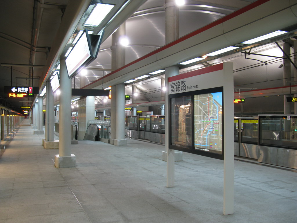 富锦路站 1号线月台 Line 1 Platform of Fujin Road Station